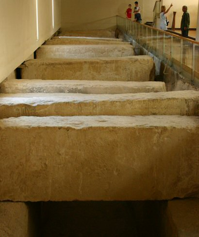 Solar bark of Kheops. Picture of discovery place inside the bark museum. Image taken by Alex Lbh in April 2005.